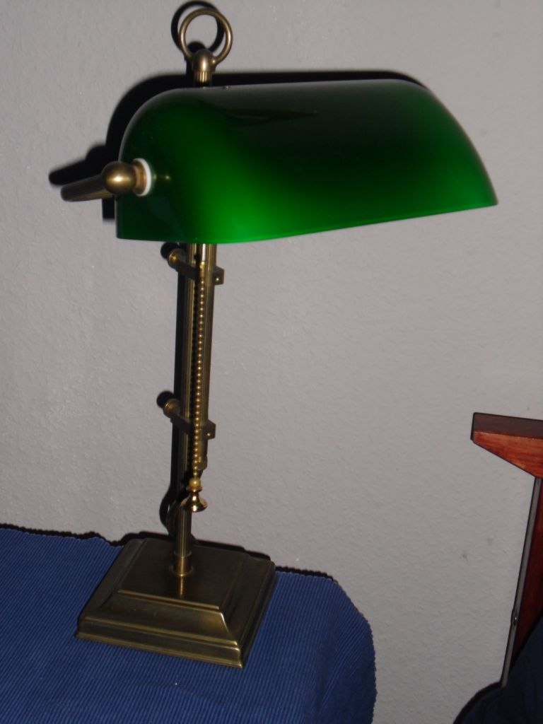 Banker´s lamp made of brass with 3 layer glass shed